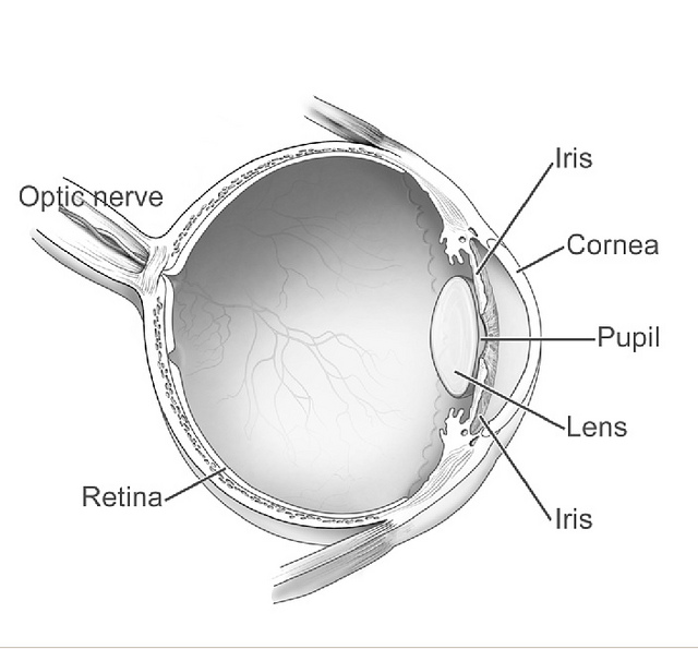 Sagittal view of the human eye.